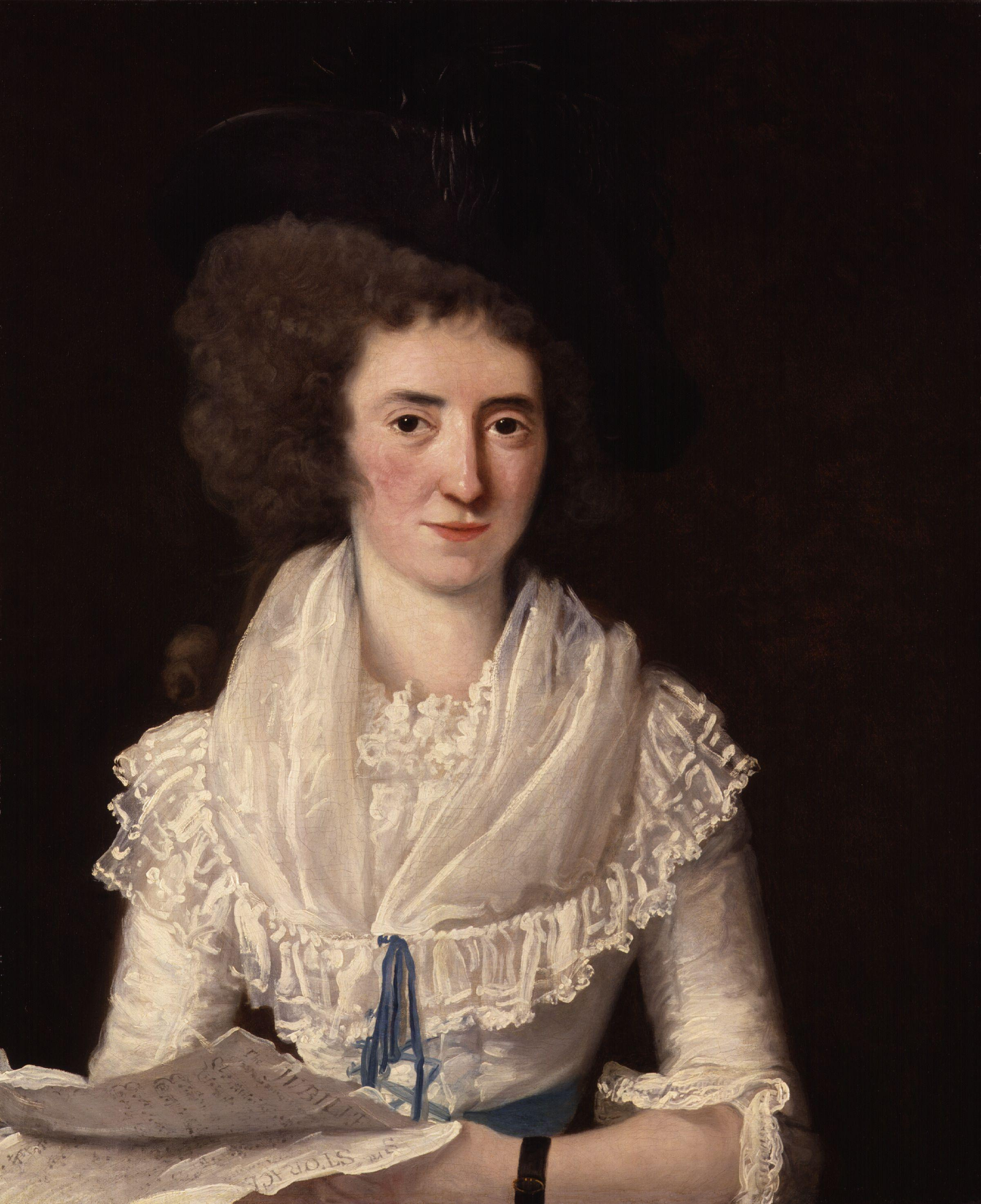 Portrait of Nancy Storace, opera singer